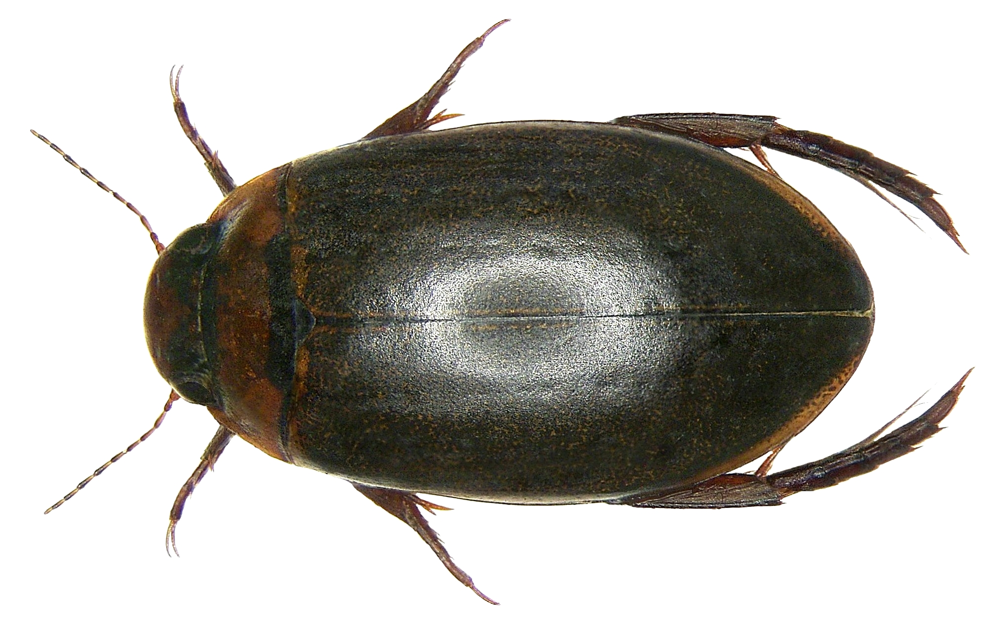 Family: Dytiscidae Size: 10-11 mm Distribution: Northern and Central Europe Location: Germany, Bremen, Teufelsmoor leg.det. U.Schmidt, 1977 Photo: U.Schmidt 2008